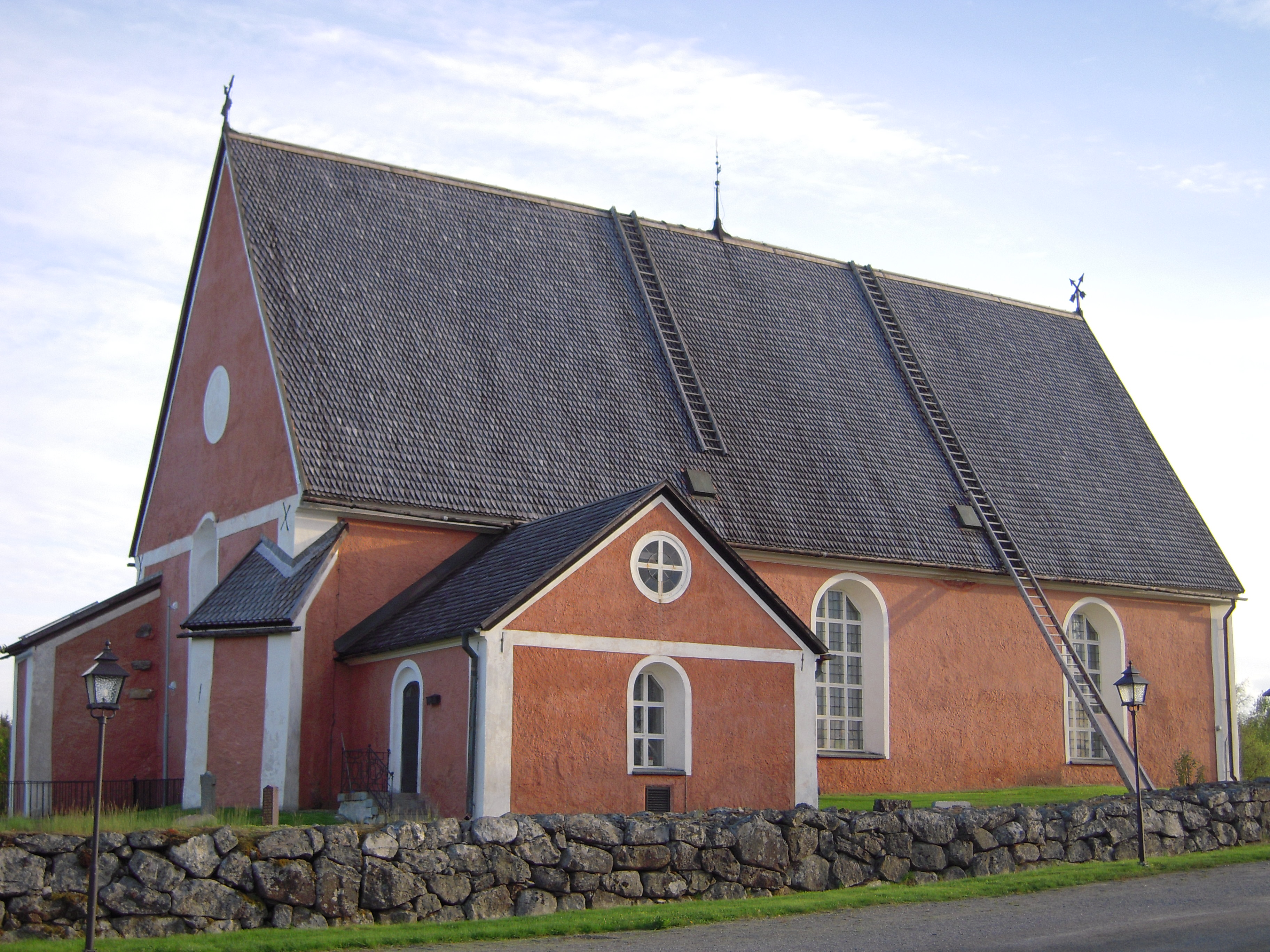 Bygdeå church viewed from the southern side.